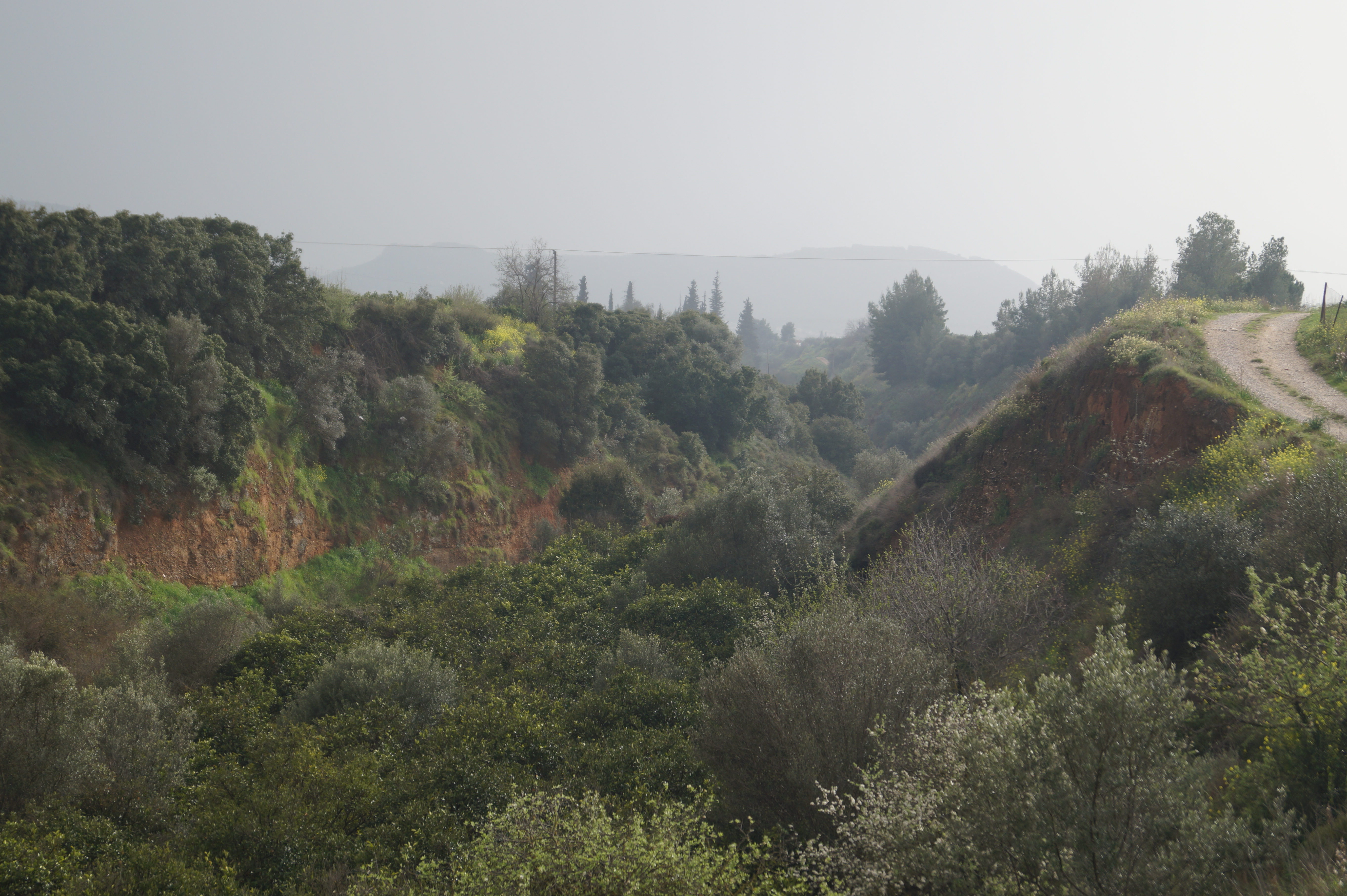 Agios Adrianos, Greece: Dam of Tiryns: The artifical channel which lead the stream to the south of Tiryns.